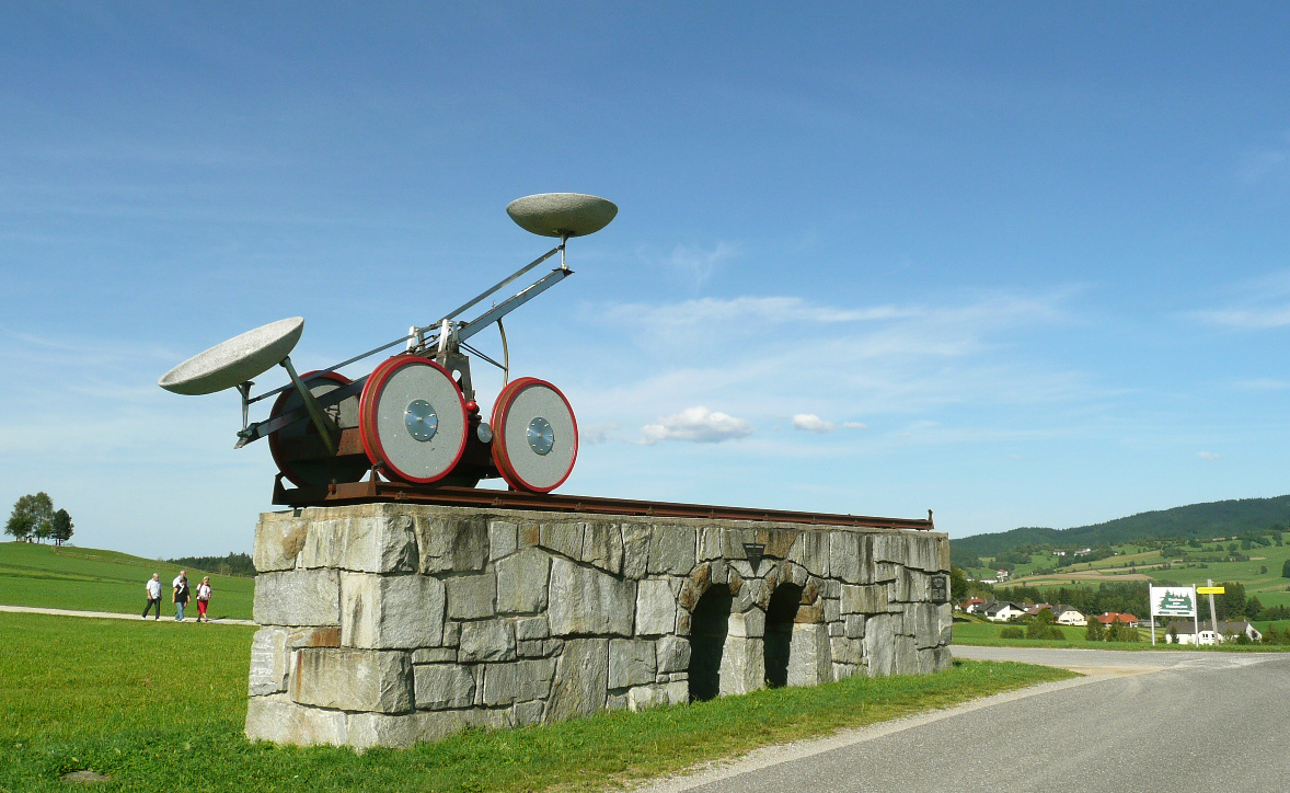 Leopoldschlag - Windhaag European Water divide between Elbe and Danube, Upper Austria.